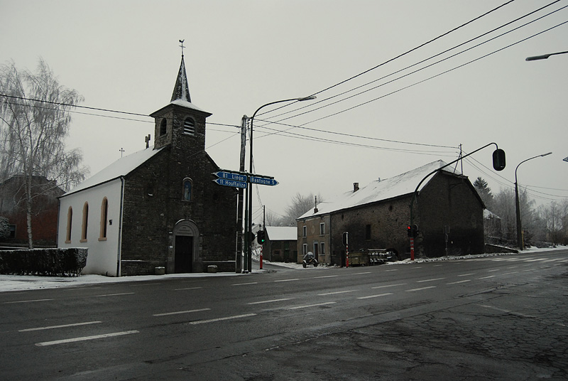 Church of the village Foy in Belgium